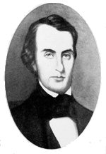 James C. Jones (1809–1859), American politican who served as Governor of Tennessee in the 1840s.